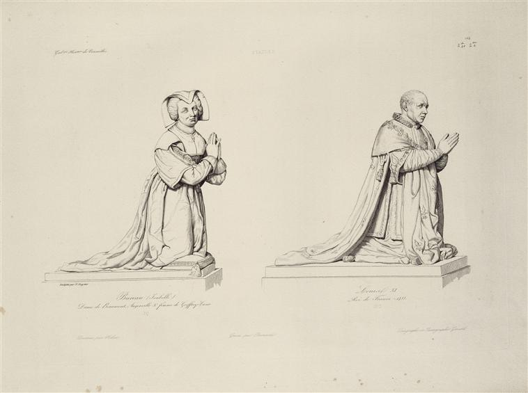 Chrétienne Leclerc Normandy Famille Le Clerc Louvre